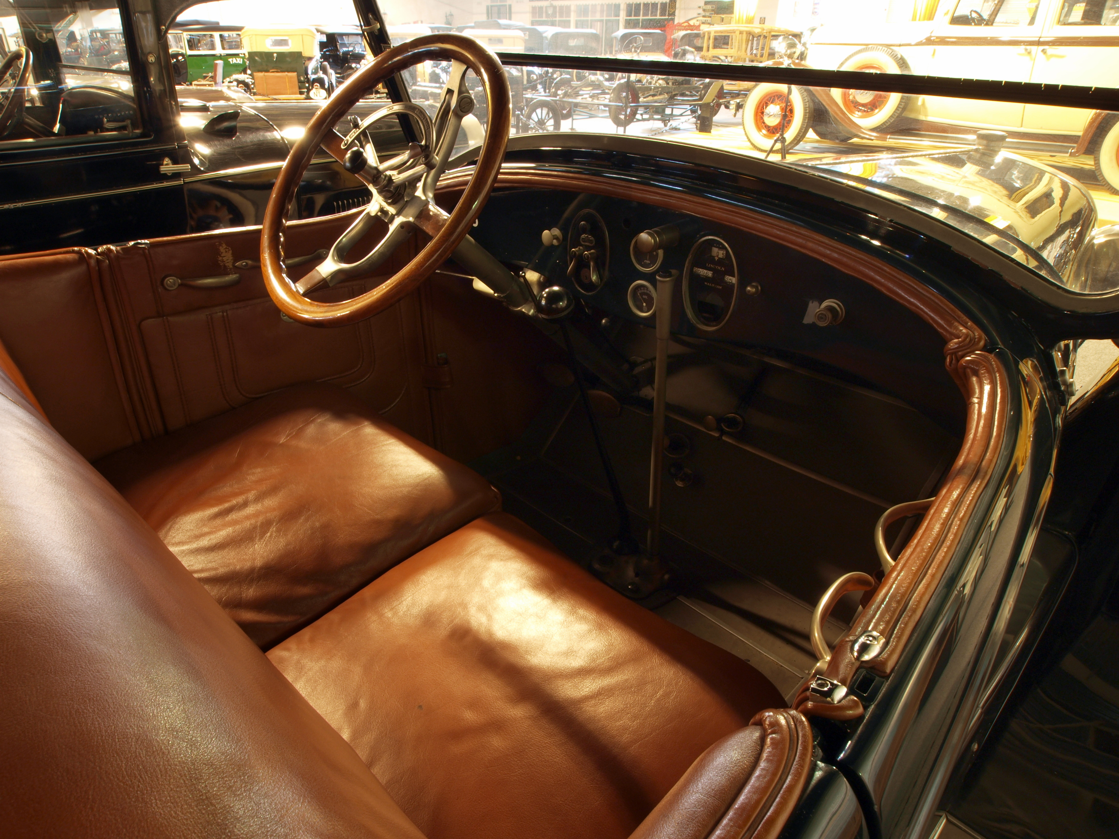 Photographed at the Den Hartogh Ford museum.